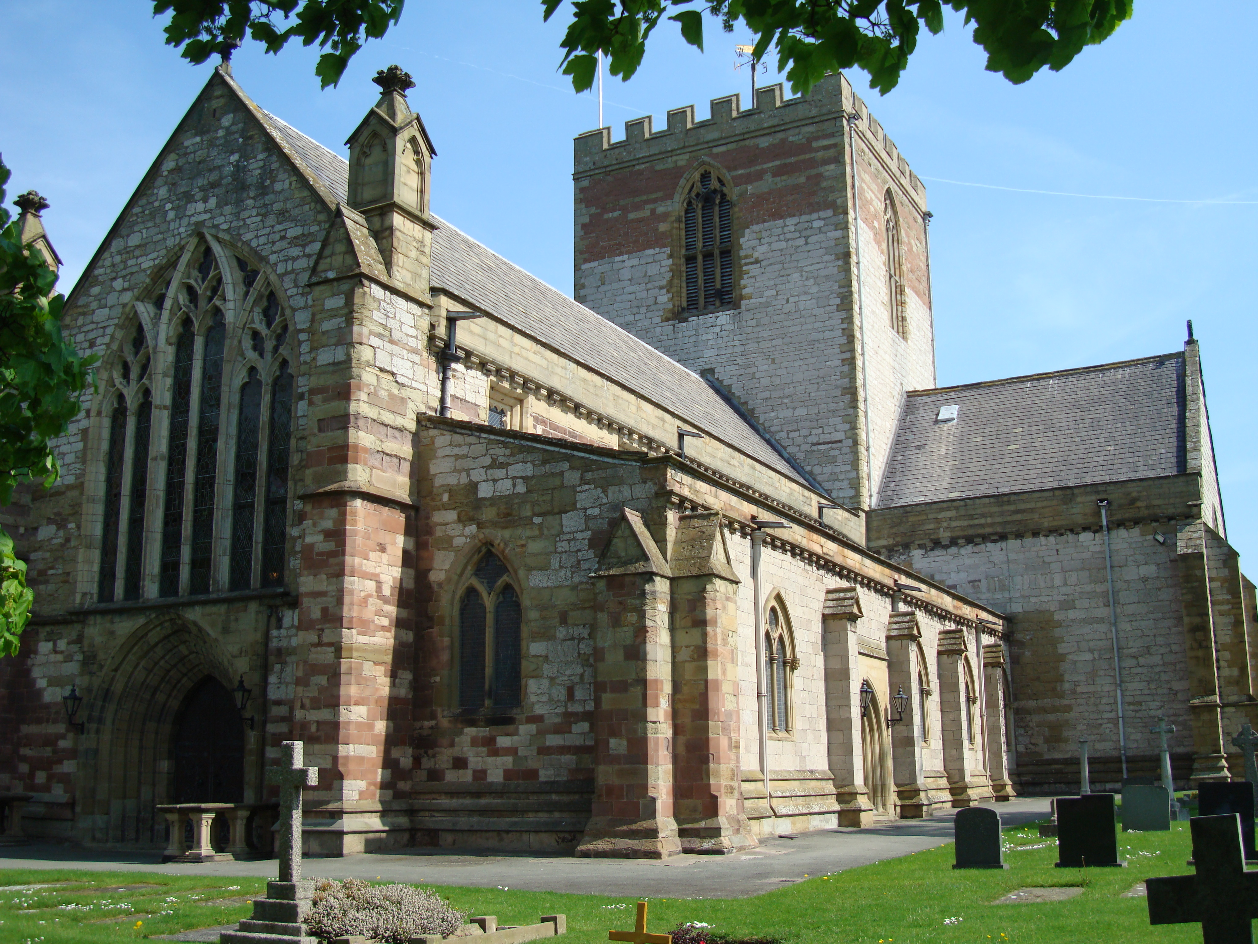 Photograph of St Asaph's Cathedral, St Asaph, Denbighshire, Wales